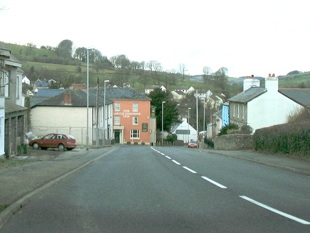 Trecastle. This is a view looking west along the A40 from the east side of Trecastle.